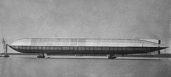 Dirigible British Naval Airship possibly in 1911